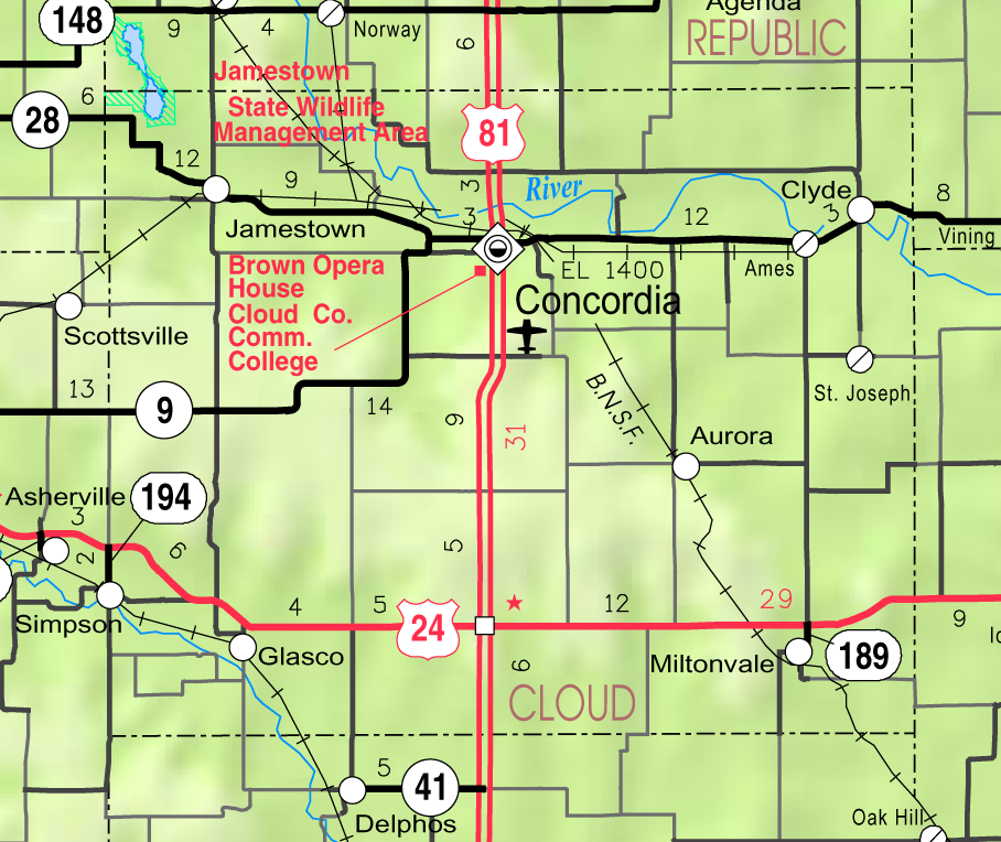 This map of Cloud County, Kansas, USA, is copied at a resolution of 300 pixels/inch from the original PDF file.